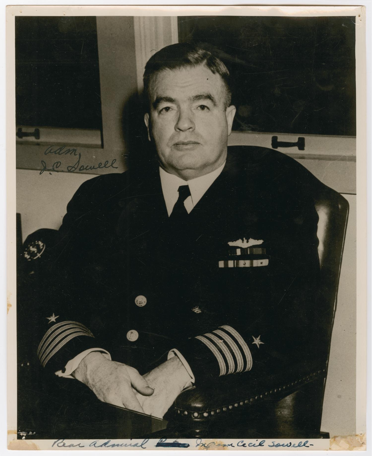 Ingram Cecil Sowell (January 2, 1892 - December 21, 1947) was a highly decorated officer in the United States Navy with the rank of Rear Admiral. A graduate of the United States Naval Academy, he was trained as submarine commander and distinguished himself as Commanding officer of submarine USS K-2 during World War I and received Navy Cross, the United States Navy second-highest decoration awarded for valor in combat. Official Navy Photo released by the Department of Defense; USN 40951